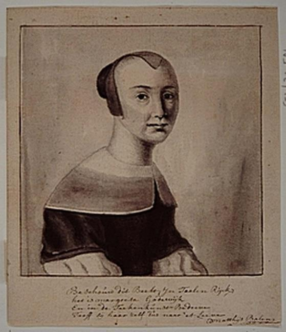 This image is available from the Netherlands Institute for Art Historyunder digital ID 254117. This tag does not indicate the copyright status of the attached work. A normal copyright tag is still required. See Commons:Licensing.